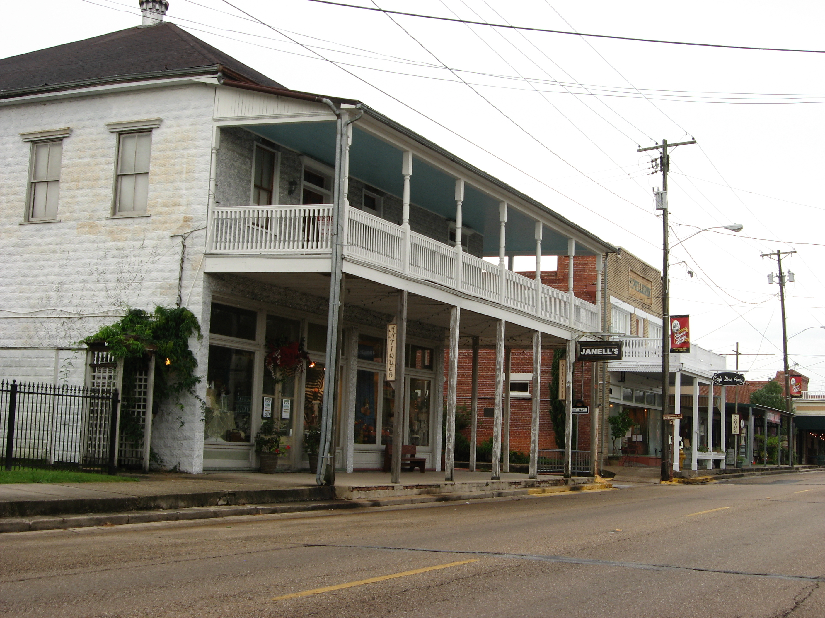 Breaux Bridge, St. Martin Parish, Louisiana, United States. Le Café Des Amis is a meeting place for Cajun musicians.